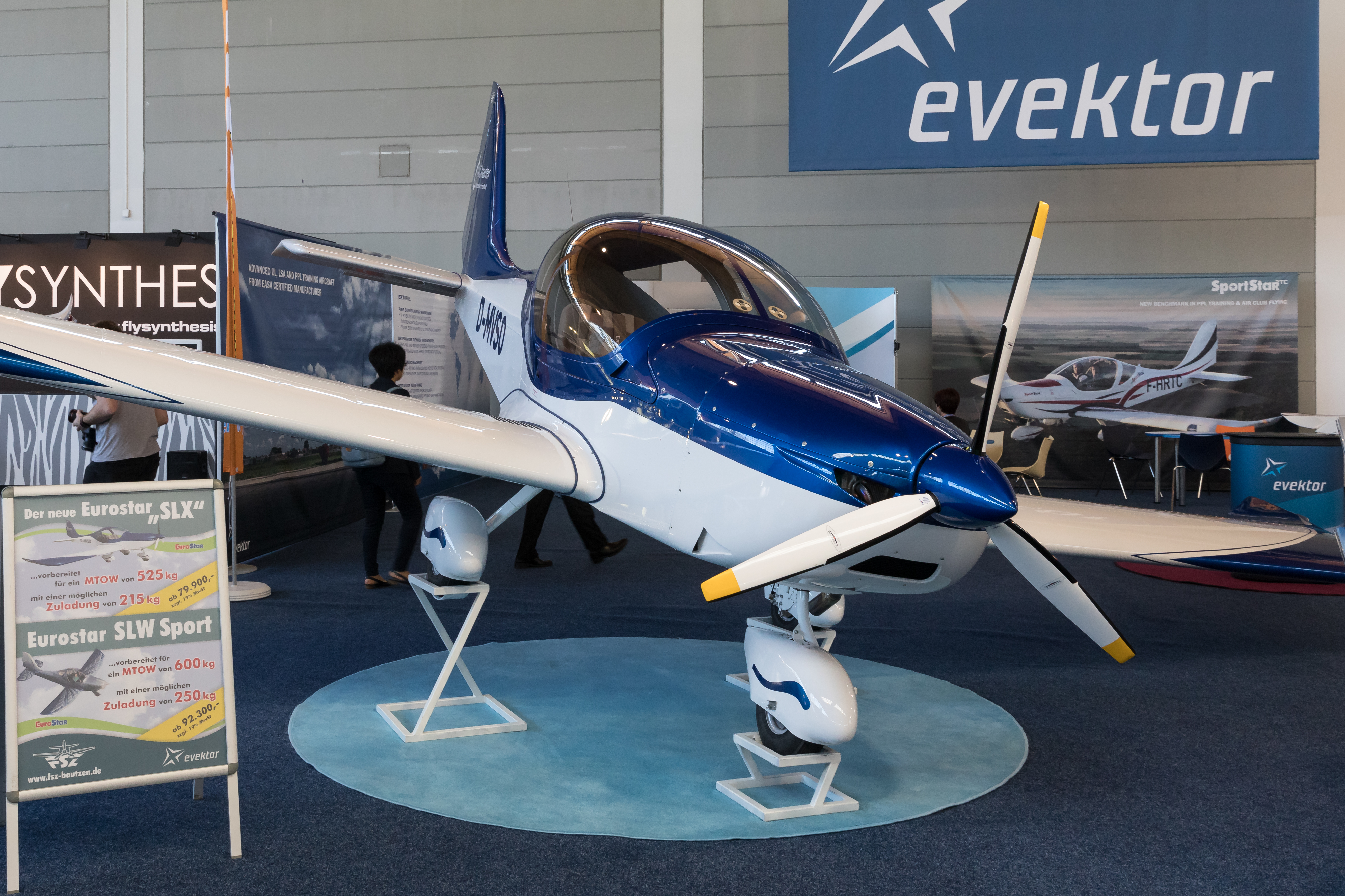 AERO Friedrichshafen 2018